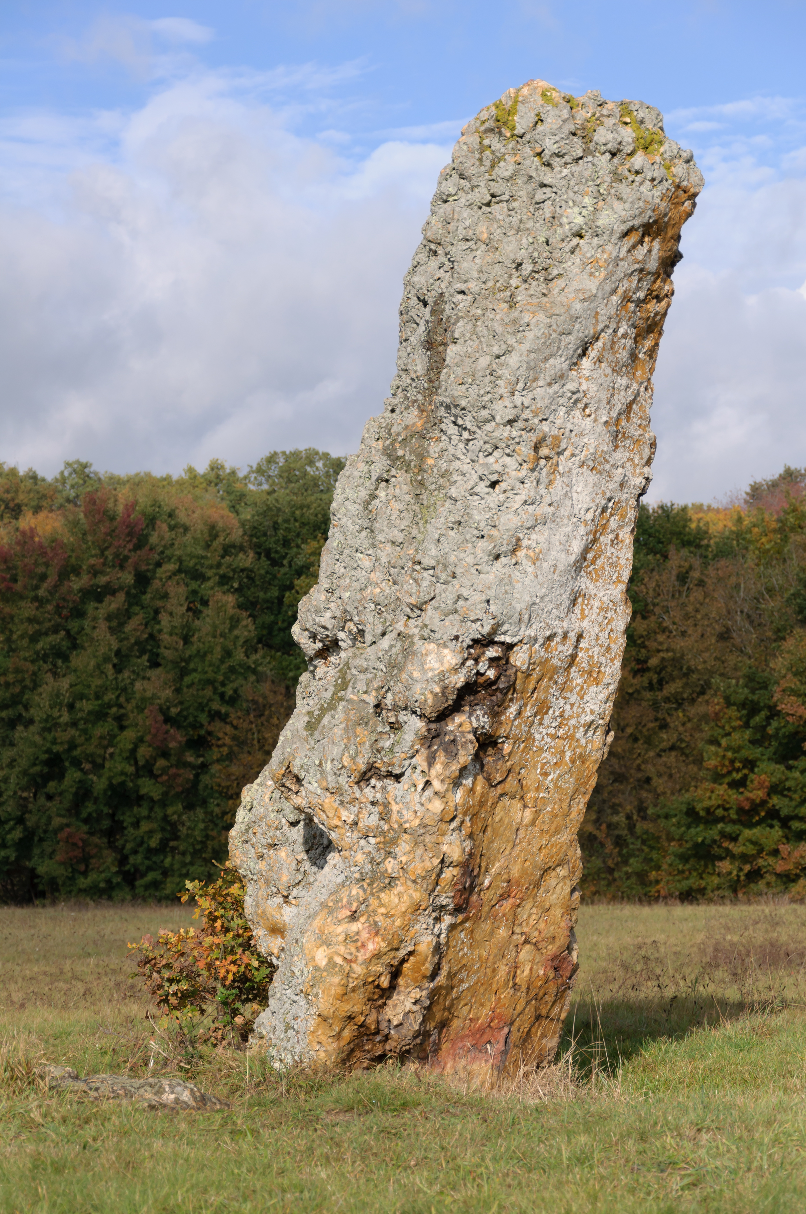 Menhir de Vaujours, also called menhir de la Pierre or Pierre de Vaujour is a standing stone around 3.6m high, made of puddingstone, in Château-la-Vallière, Indre-et-Loire, France.